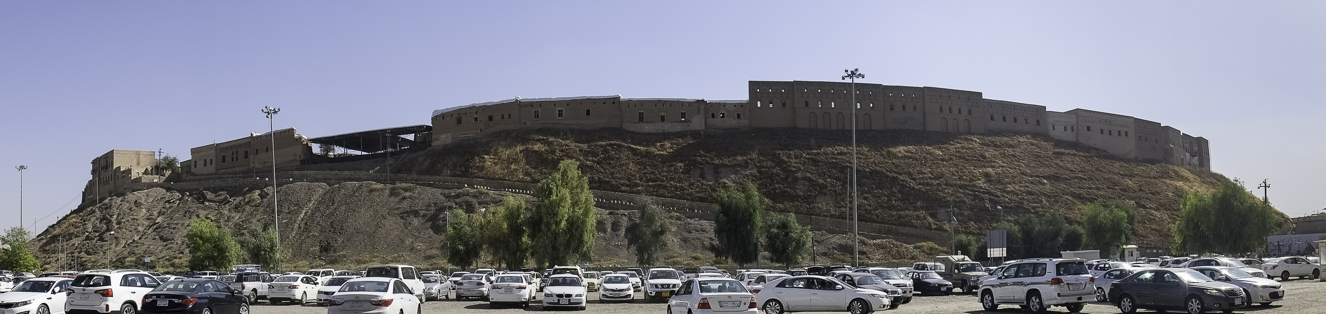 Panorama of the Citadel of Erbil